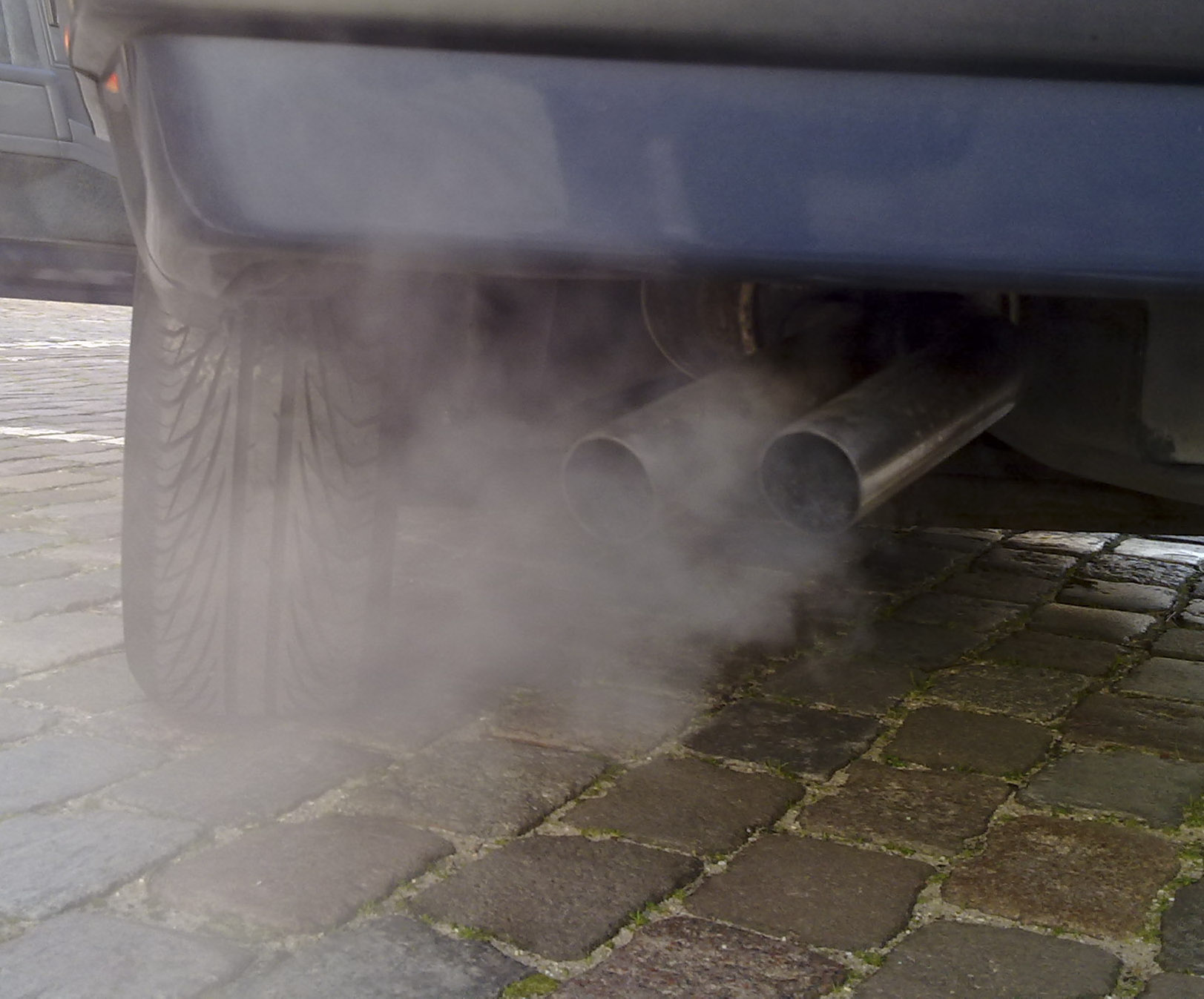 Automobile exhaust gas. White exhaust gas is mostly water vapor. Black smoke could come from oil burning.